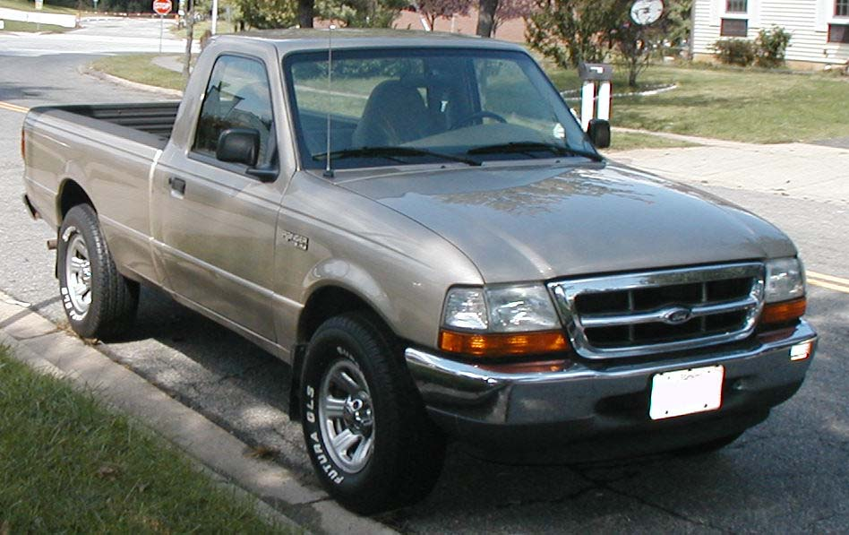 1999-2003 Ford Ranger photographed in USA.